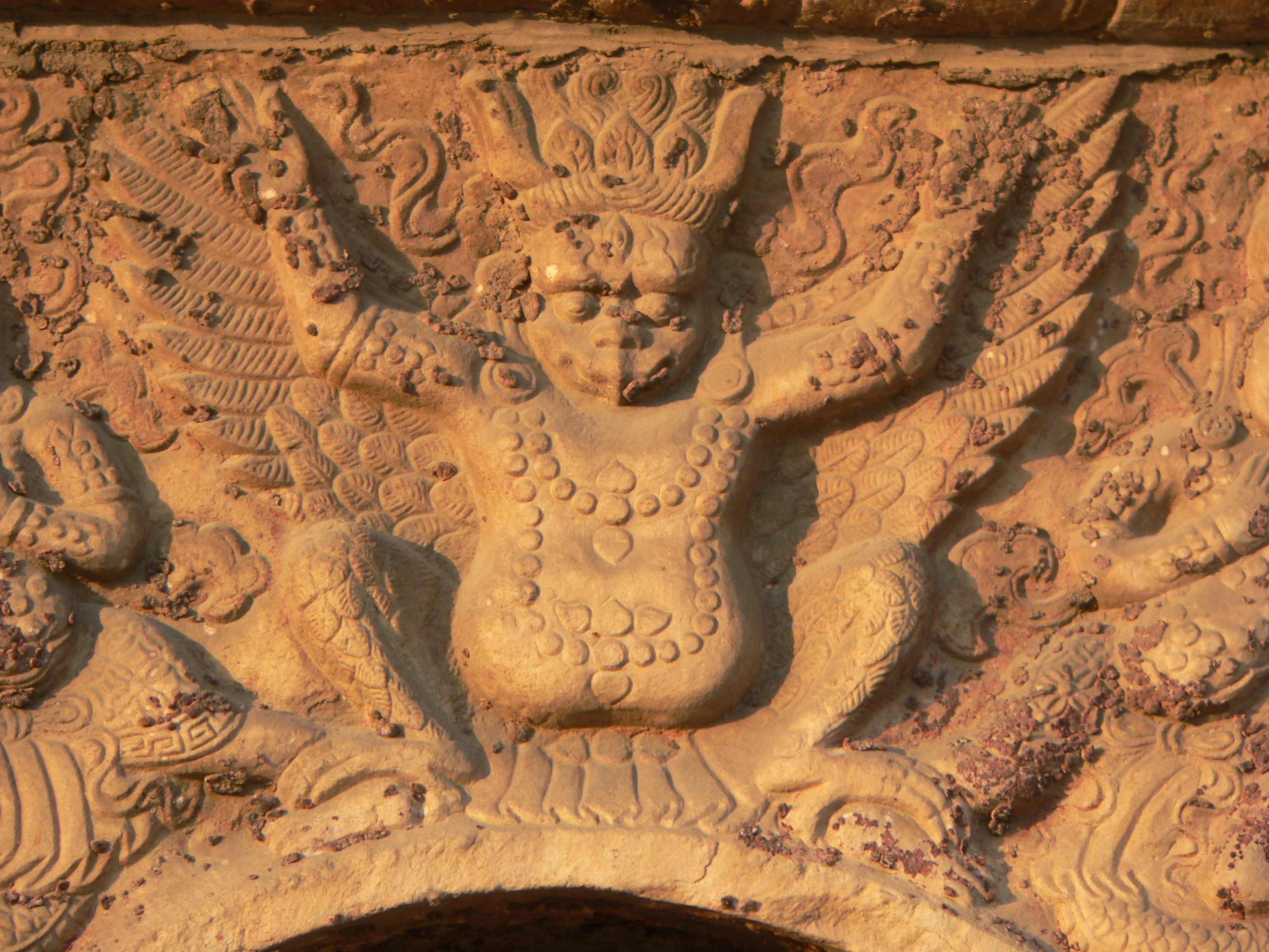 Garuda on a pagoda at the Zhenjue Temple (真覺寺), also known as the Five Pagoda Temple (五塔寺), in Beijing, China.